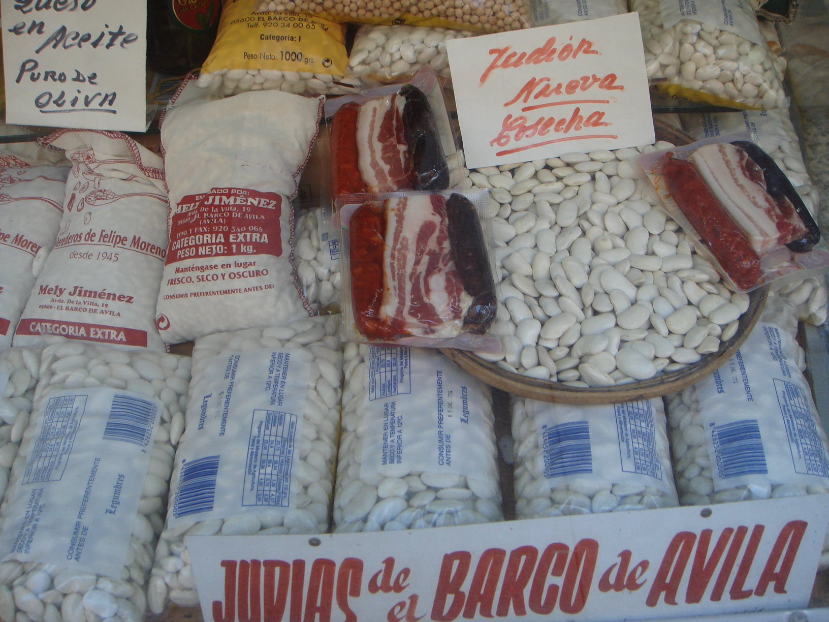 Beans of El Barco de Ávila, Spain, Ávila.